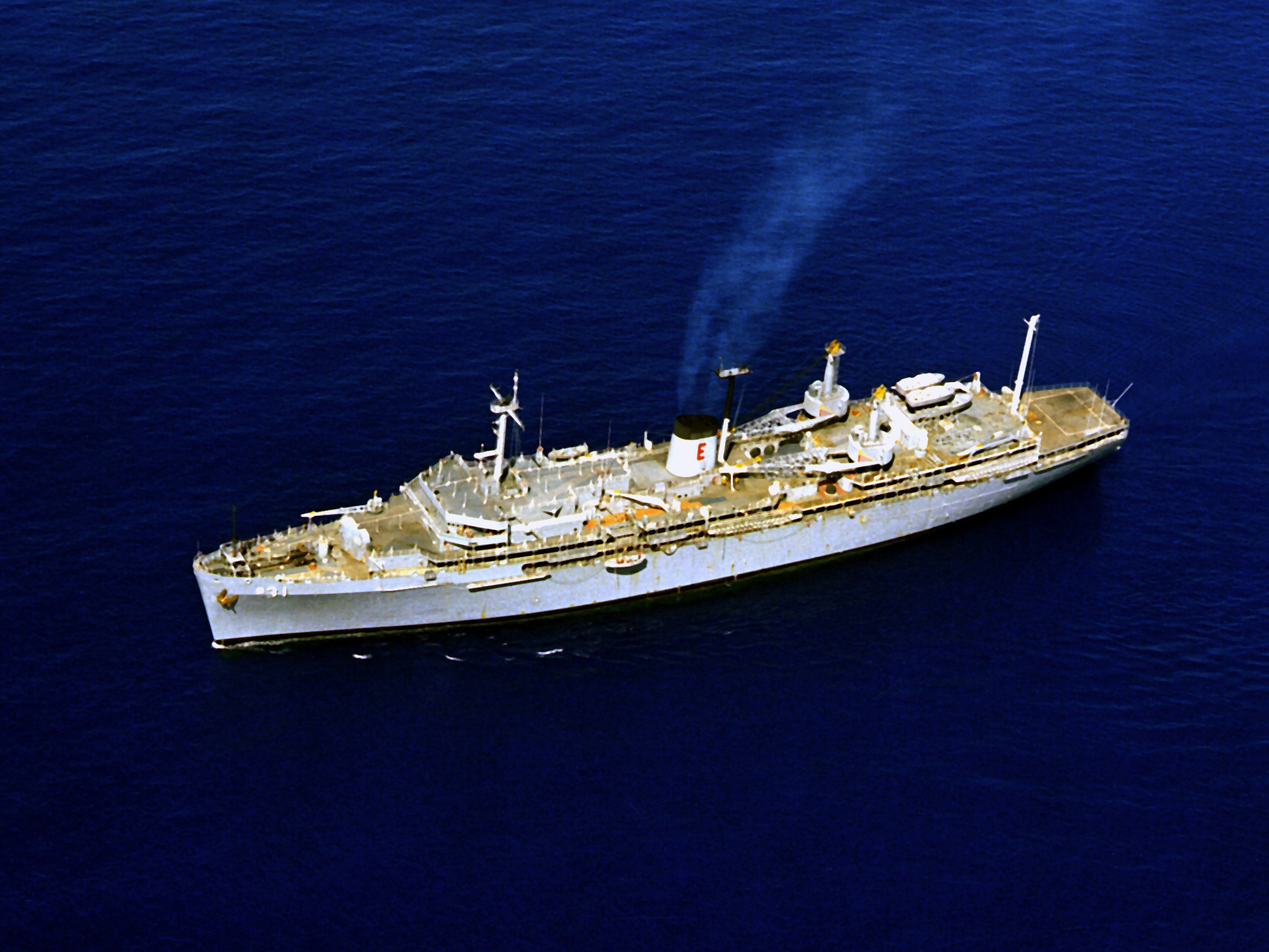 The U.S. Navy submarine tender USS Hunley (AS-31) underway off Agana Bay, Guam (USA), on 1 August 1980.